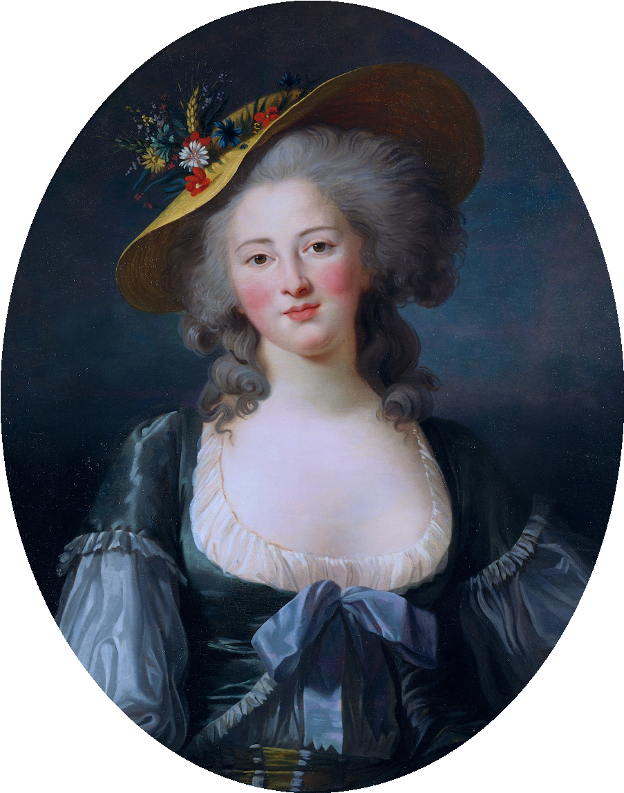 Portrait of Elisabeth of France